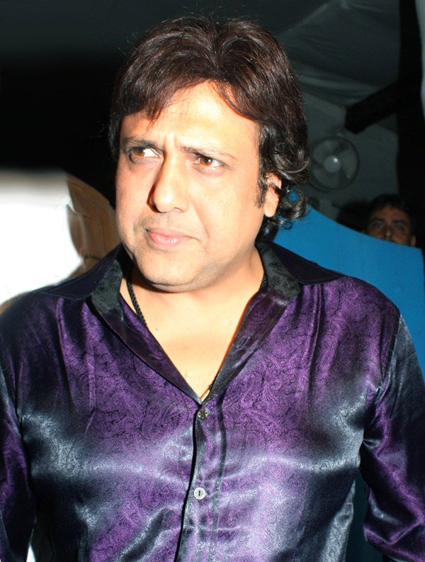 Govinda at Katrina Kaif's birthday